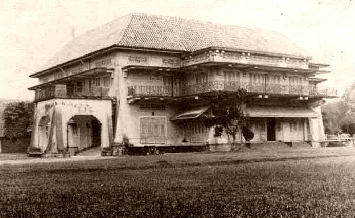 Woodneuk Palace, the Singapore home of the Sultan of Johor after Tyersall House burned down on 10 September 1905. It has long been abandoned and is often photographed today as a picturesque wreck. It was used by Sultan Ibrahim of Johor. Photographs taken in 2007–2008 of the abandoned building are here.